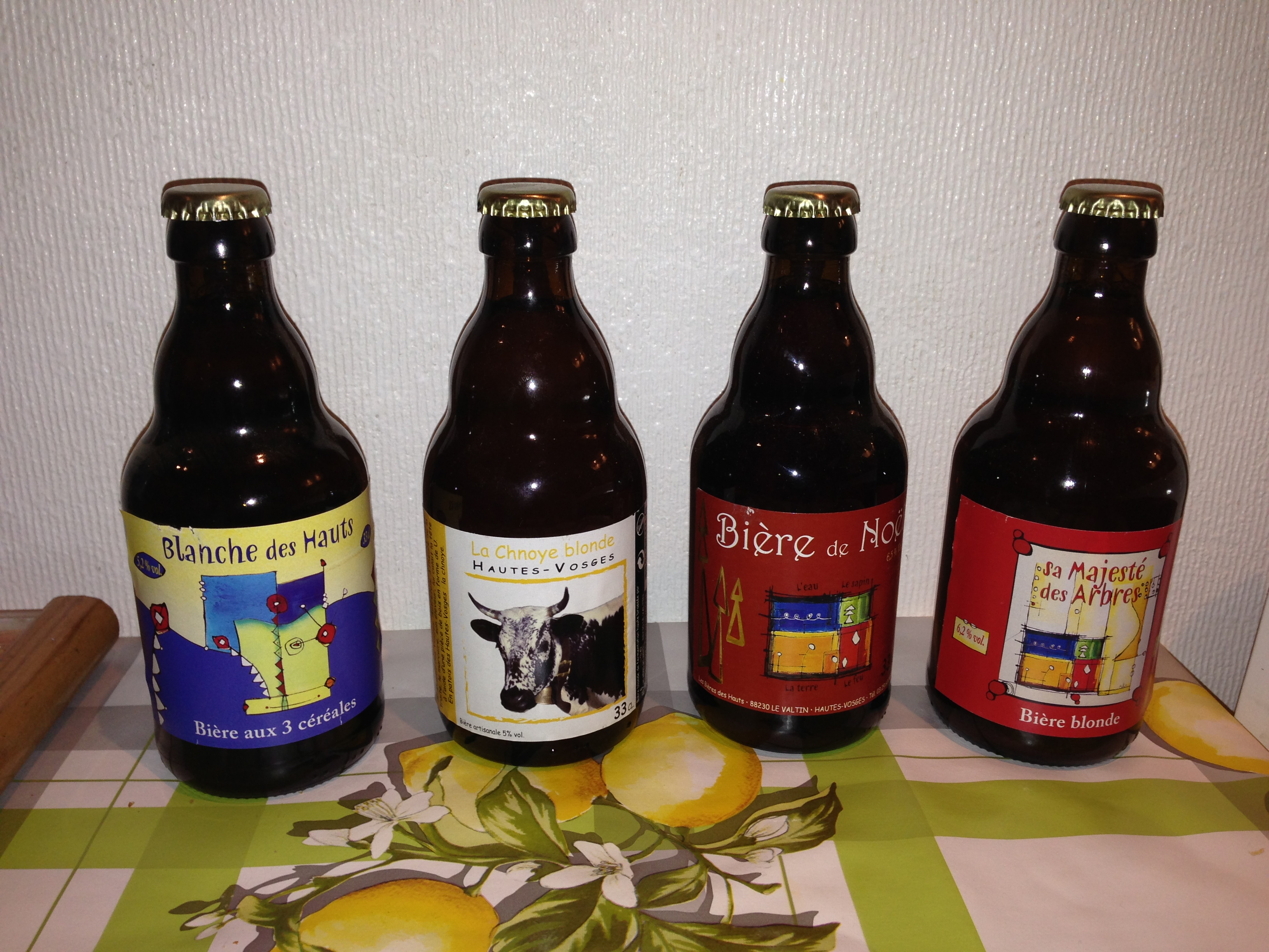 Beers from Brewery "Les Hauts" from Hautes Vosges